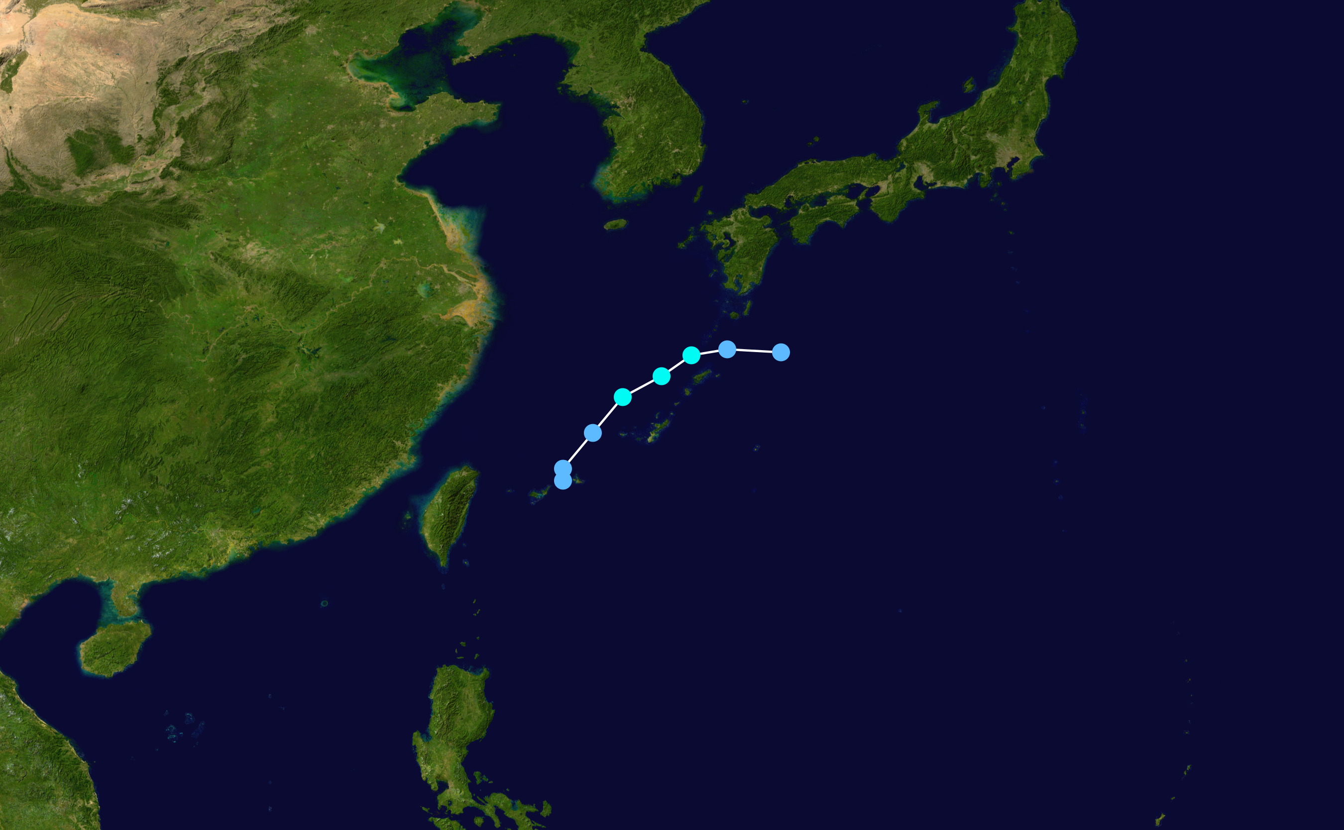 Track map of Tropical Storm Malou of the 2016 Pacific typhoon season. The points show the location of the storm at 6-hour intervals. The colour represents the storm's maximum sustained wind speeds as classified in the Saffir–Simpson scale (see below), and the shape of the data points represent the nature of the storm, according to the legend below. Saffir–Simpson scale Tropical depression≤38 mph≤62 km/h Category 3111–129 mph178–208 km/h Tropical storm39–73 mph63–118 km/h Category 4130–156 mph209–251 km/h Category 174–95 mph119–153 km/h Category 5≥157 mph≥252 km/h Category 296–110 mph154–177 km/h Unknown Storm type Tropical cyclone Subtropical cyclone Extratropical cyclone / Remnant low / Tropical disturbance / Monsoon depression